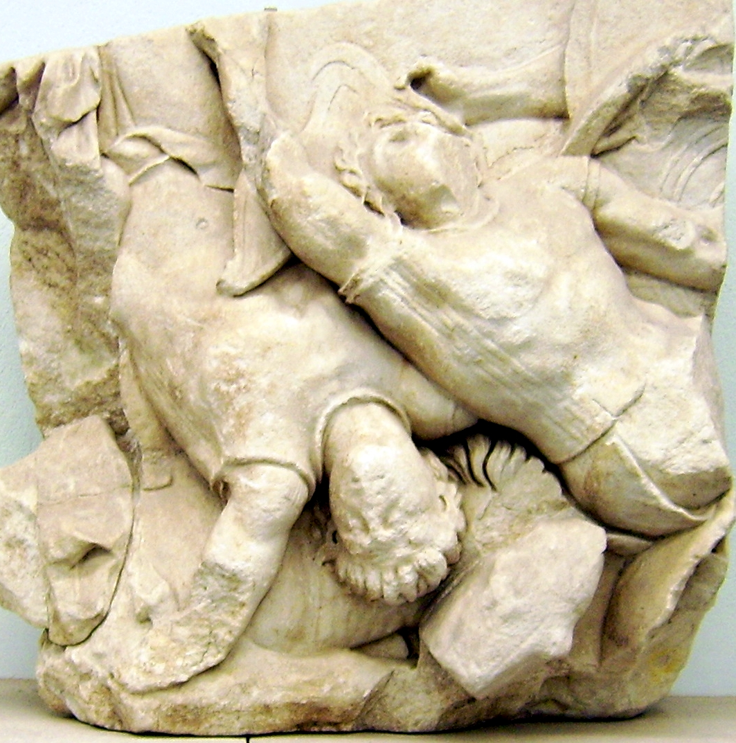 Cropped version of Image:Pergamonmuseum - Antikensammlung - Pergamonaltar 61.JPG, so as to make the subject more visible on Wikipedia in an article thumbnail size.